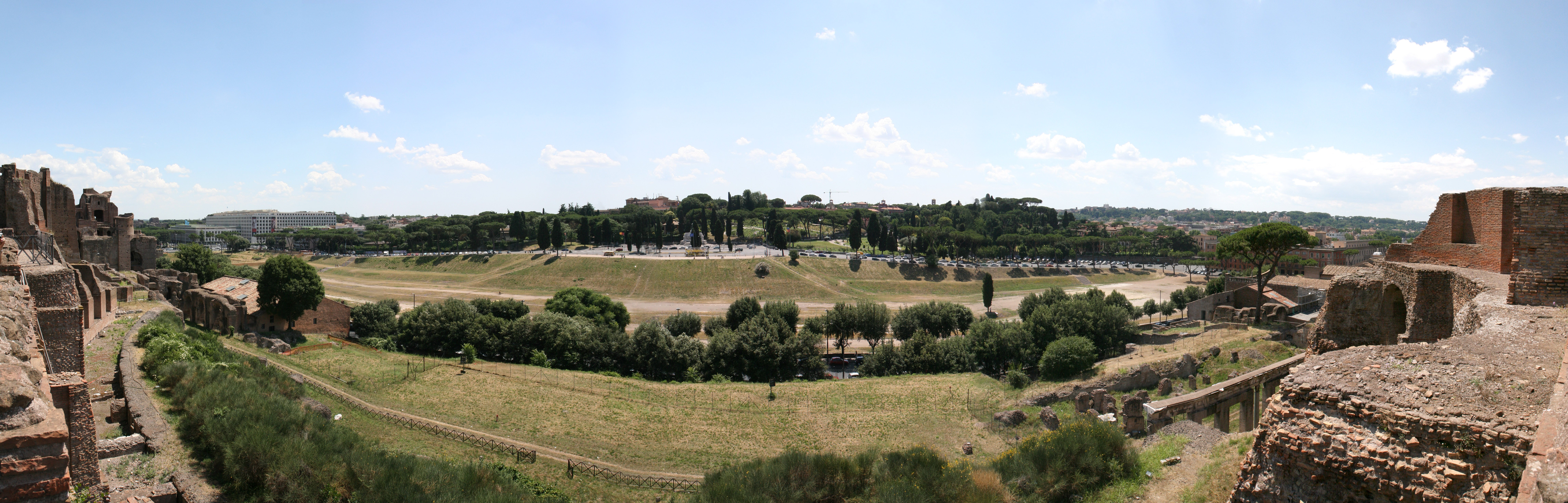 Circus Maximus from Domus Augustana on Palatine Hill